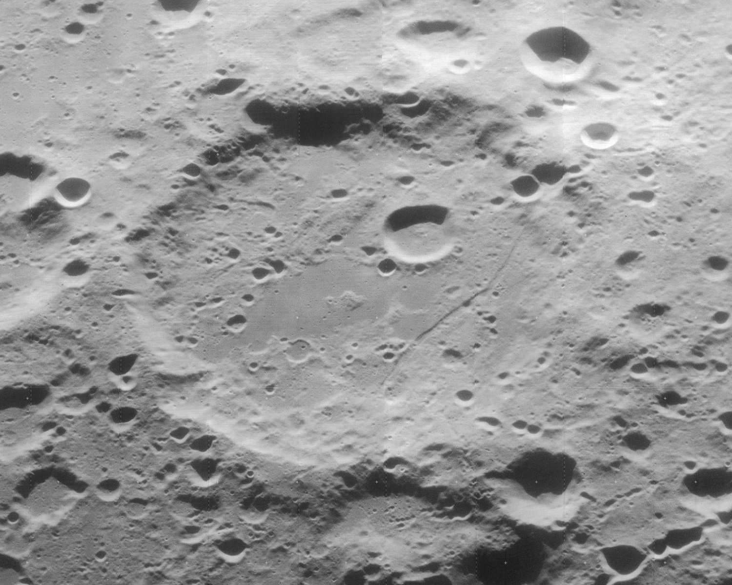 Oblique view of Furnerius, on the moon, facing west.